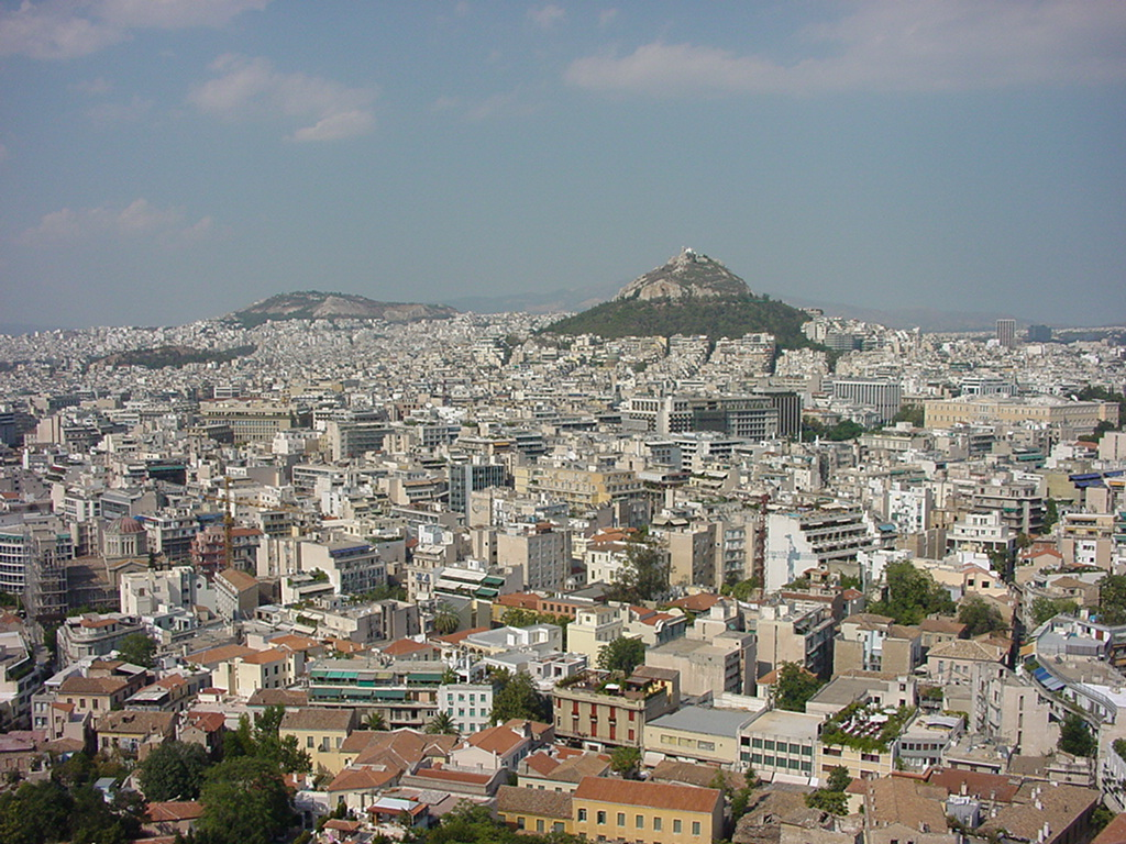 Overview of city